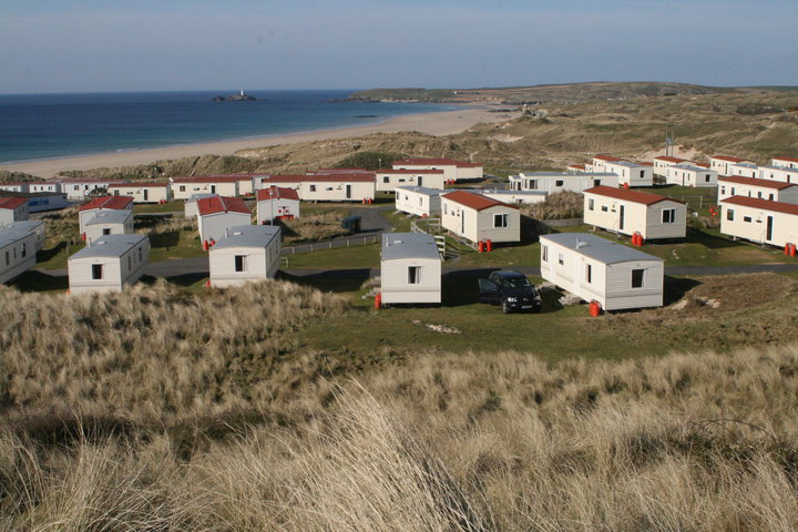 Image of St Ives Bay Holiday Park in Hayle, Cornwall.